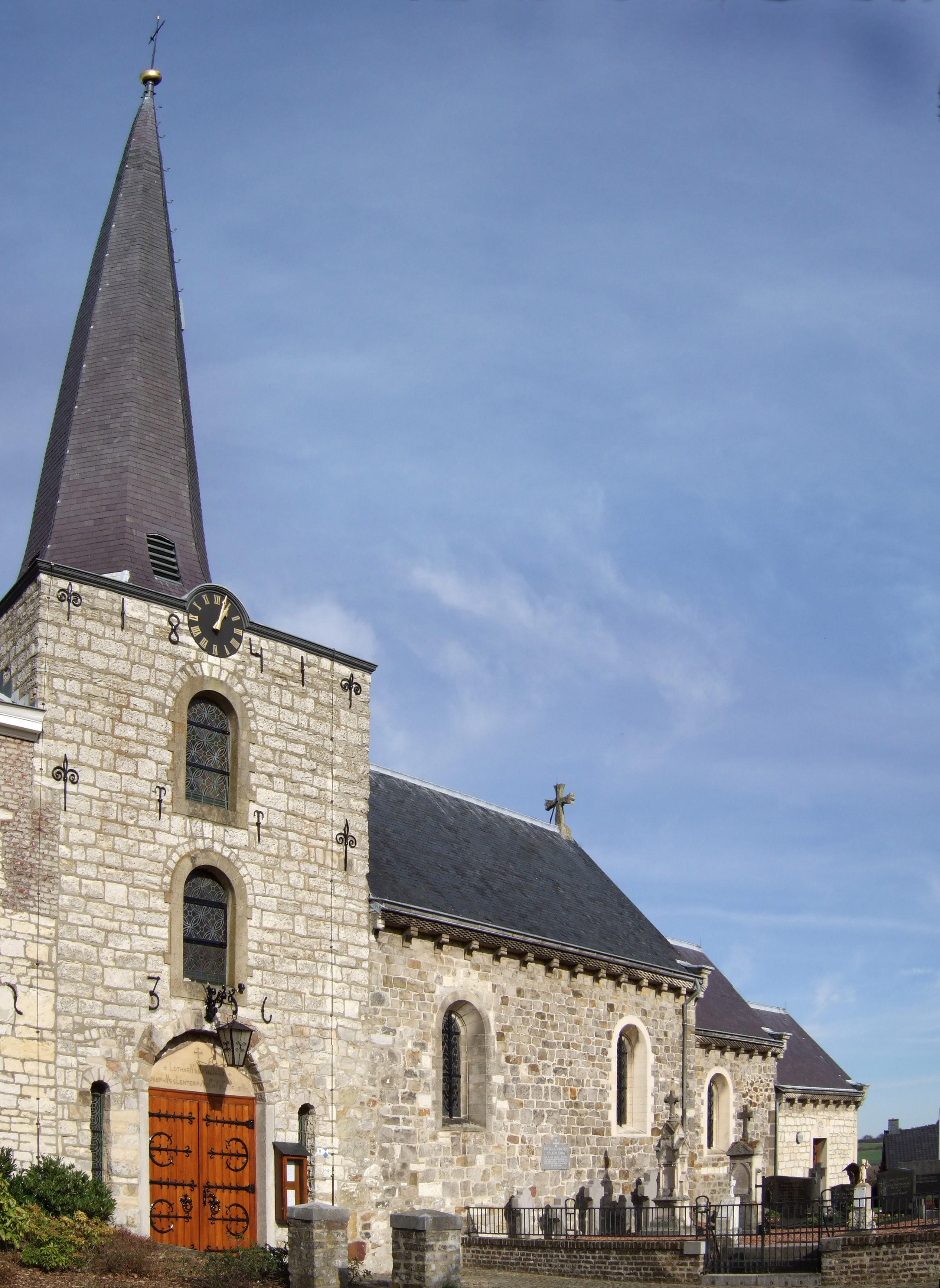 A picture of the Church of Holset (Limburg, Netherlands), taken on 16 february 2007, assembled from three images.